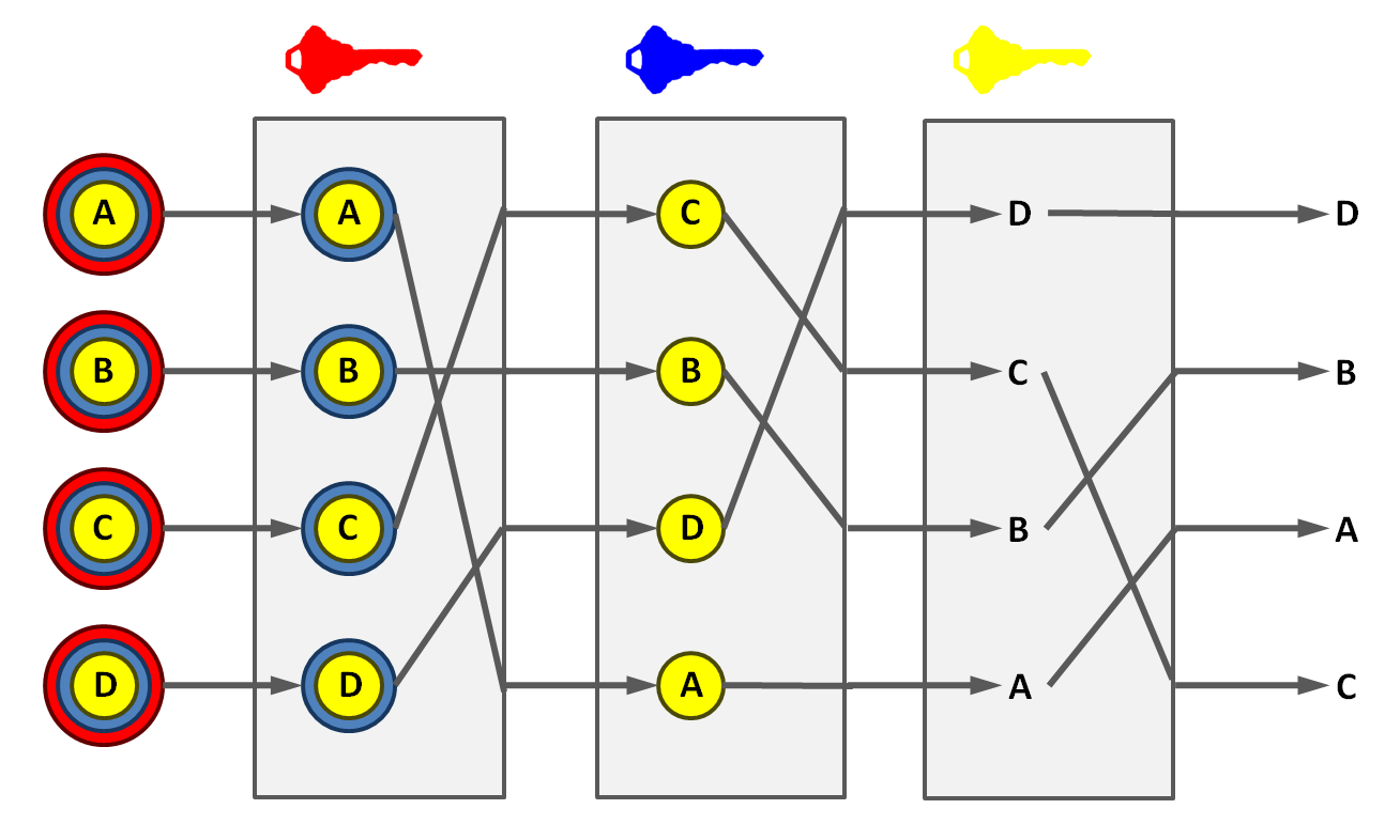 Basic decryption mix net